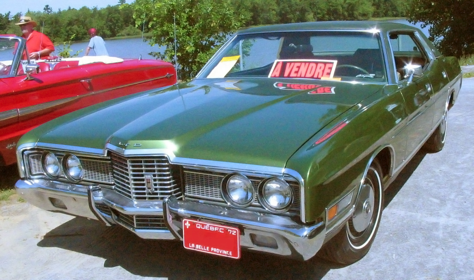 1972 Ford LTD photographed in Laval, Quebec, Canada at the Auto classique Laval.